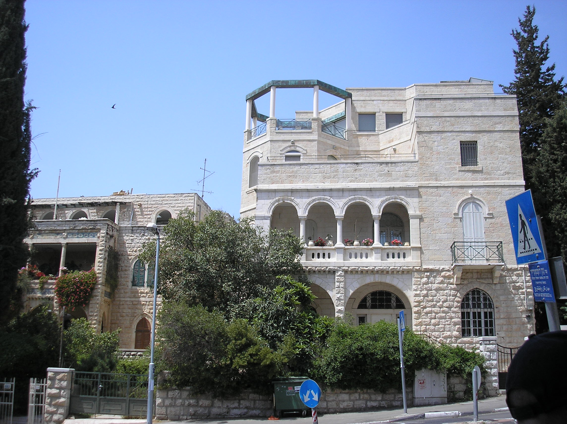 Beit Bisharat (right), Villa Harun ar-Rashid (left) , Talbiya, Jerusalem